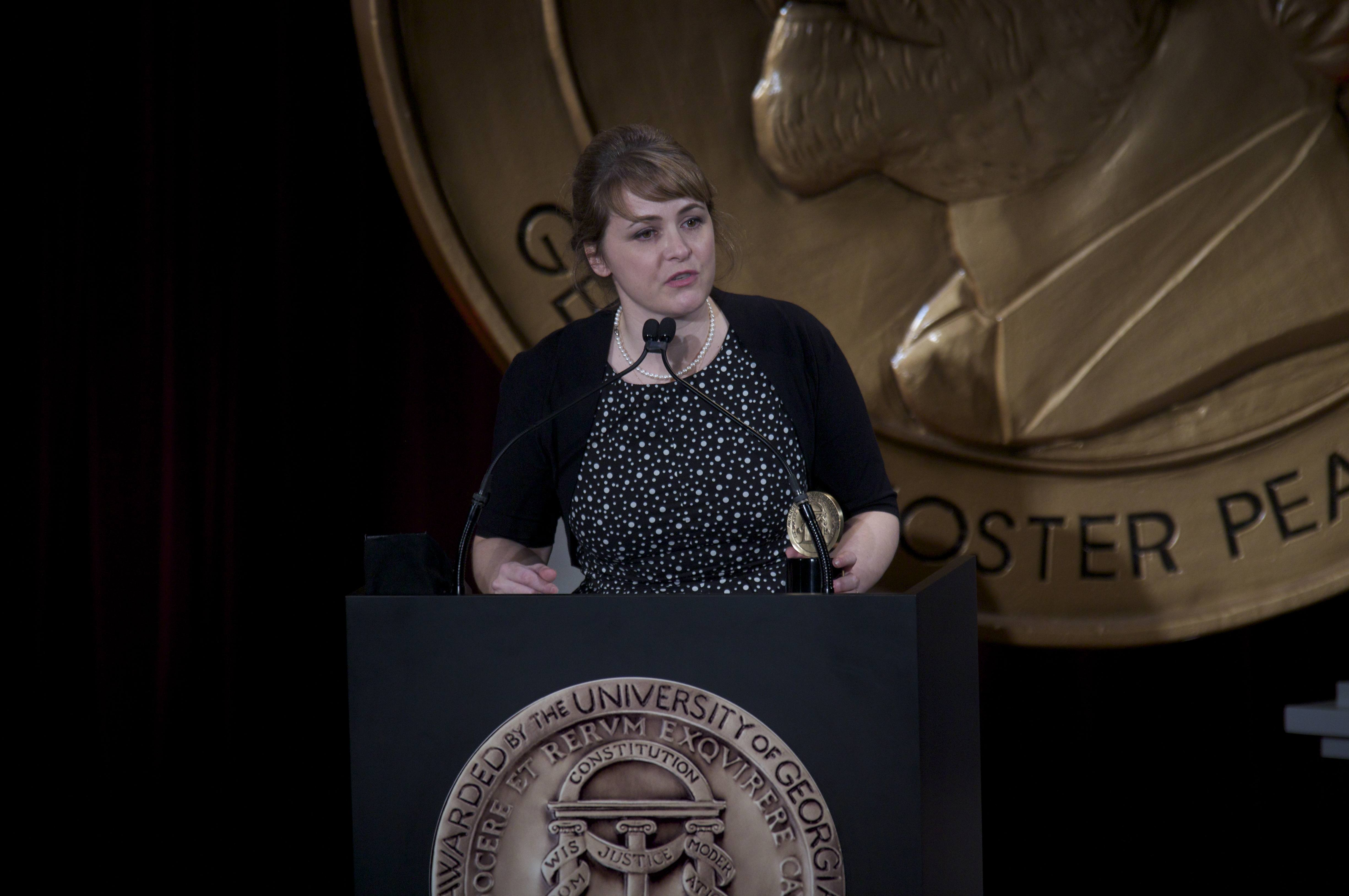 PHOTO CREDIT: ANDERS KRUSBERG / PEABODY AWARDS Kelly McEvers, 72nd Annual Peabody Awards Luncheon Waldorf-Astoria Hotel, May 20, 2013